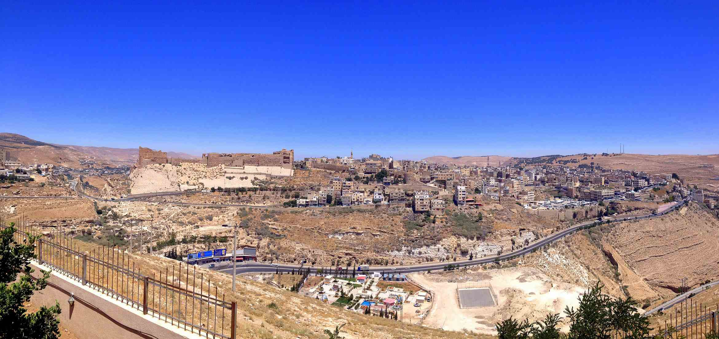 JORDANIEN | JORDAN | Karak | Kerak View to the ruins of the Karak Castle. Blick auf die Ruinen der Burg der Kreuzritter des Königreichs Jerusalem. You're welcome to use this picture free of charge, as long as you follow the license terms. As a matter of courtesy a link (dofollow links are welcome!) to is much appreciated. Thank you! ————————–—–—–—–—–—–—–—–—–—–—–—–—–—–—– Du kannst dieses Bild gemäß der Lizenzbestimmungen unentgeltlich nutzen. Über eine Verlinkung (dofollow am liebsten) auf freuen wir uns. Danke!